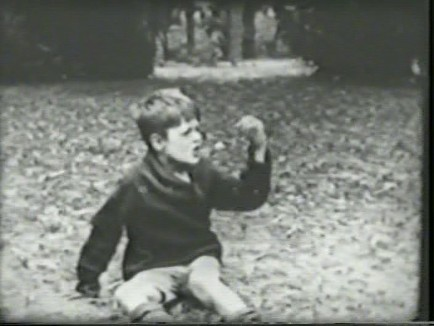 Jack Davis in One Terrible Day.